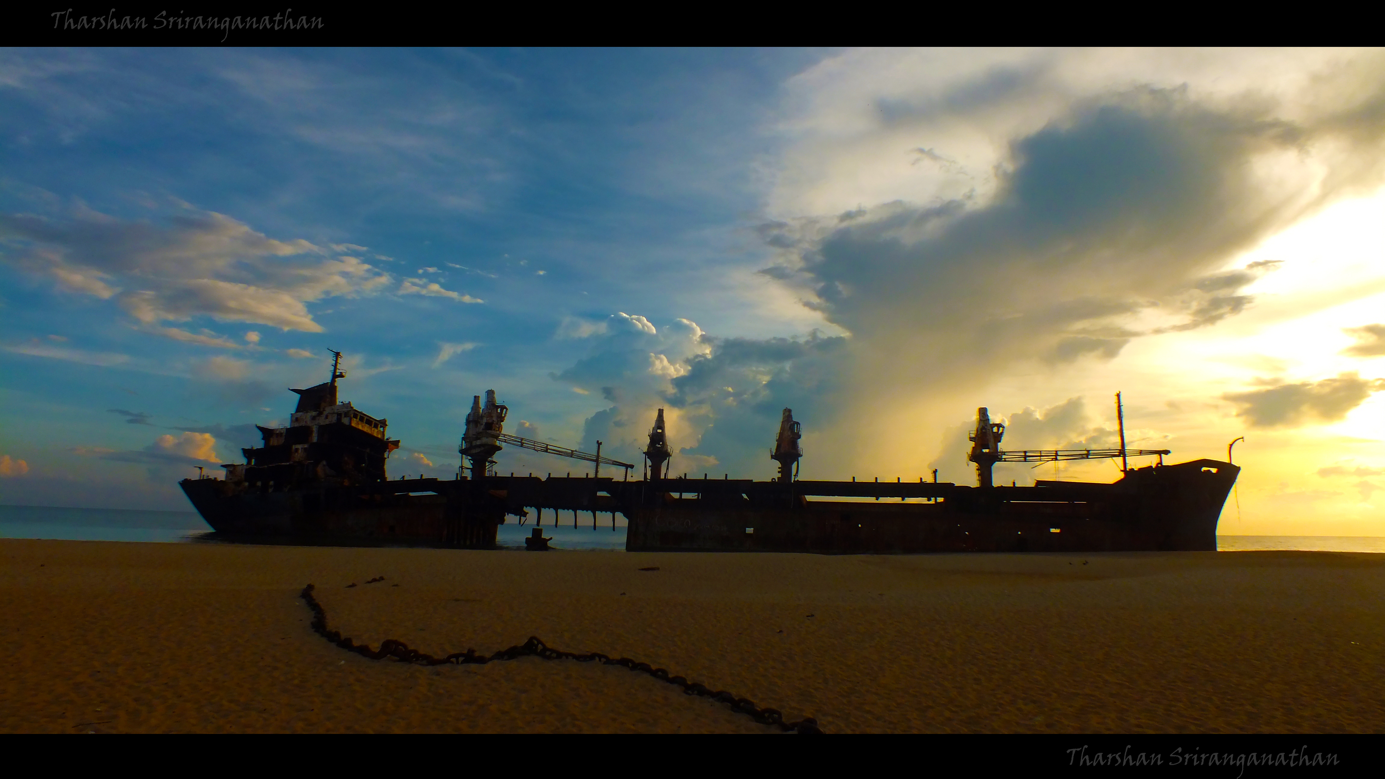 Karaiyamullivaikal is a city found near Mullative district. From travelling about 500 meters towards coastline from Karaiyamullivaikal city you can find the wreckage of FARAH – 3 Vessel, lying on the shores of the Karaiyamullivaikal beach.